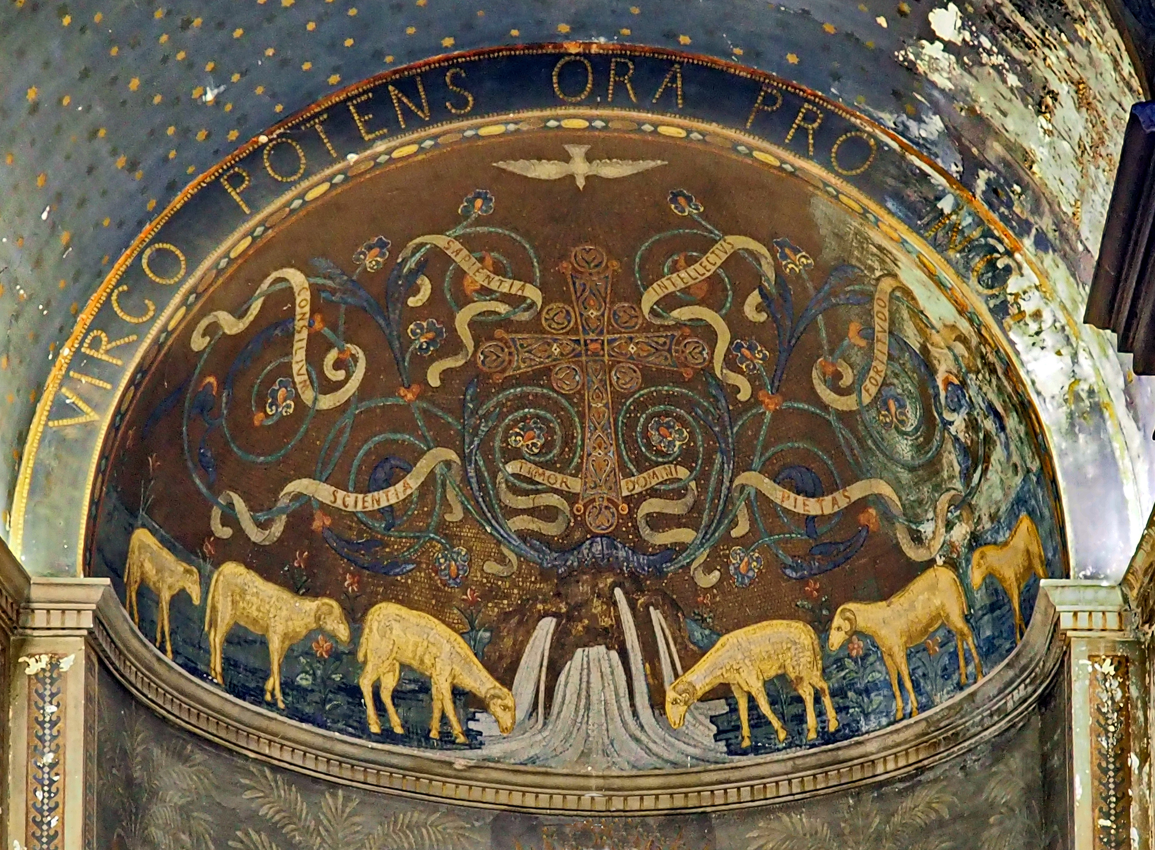 Santa Maria in Cappella (Rome); Apsis